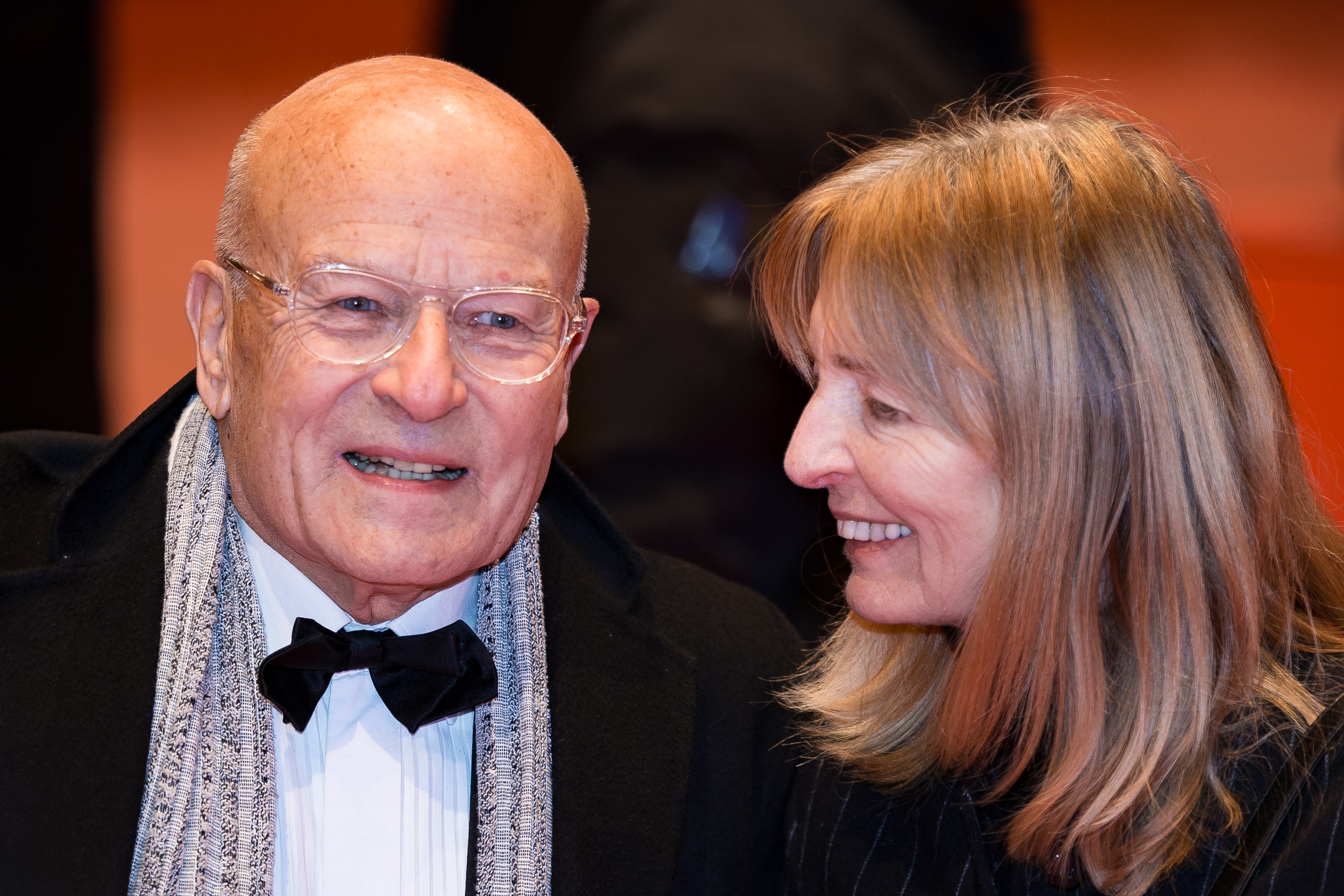 Volker Schlöndorff and his wife Angelika on the red carpet of the Berlinale 2017 opening film